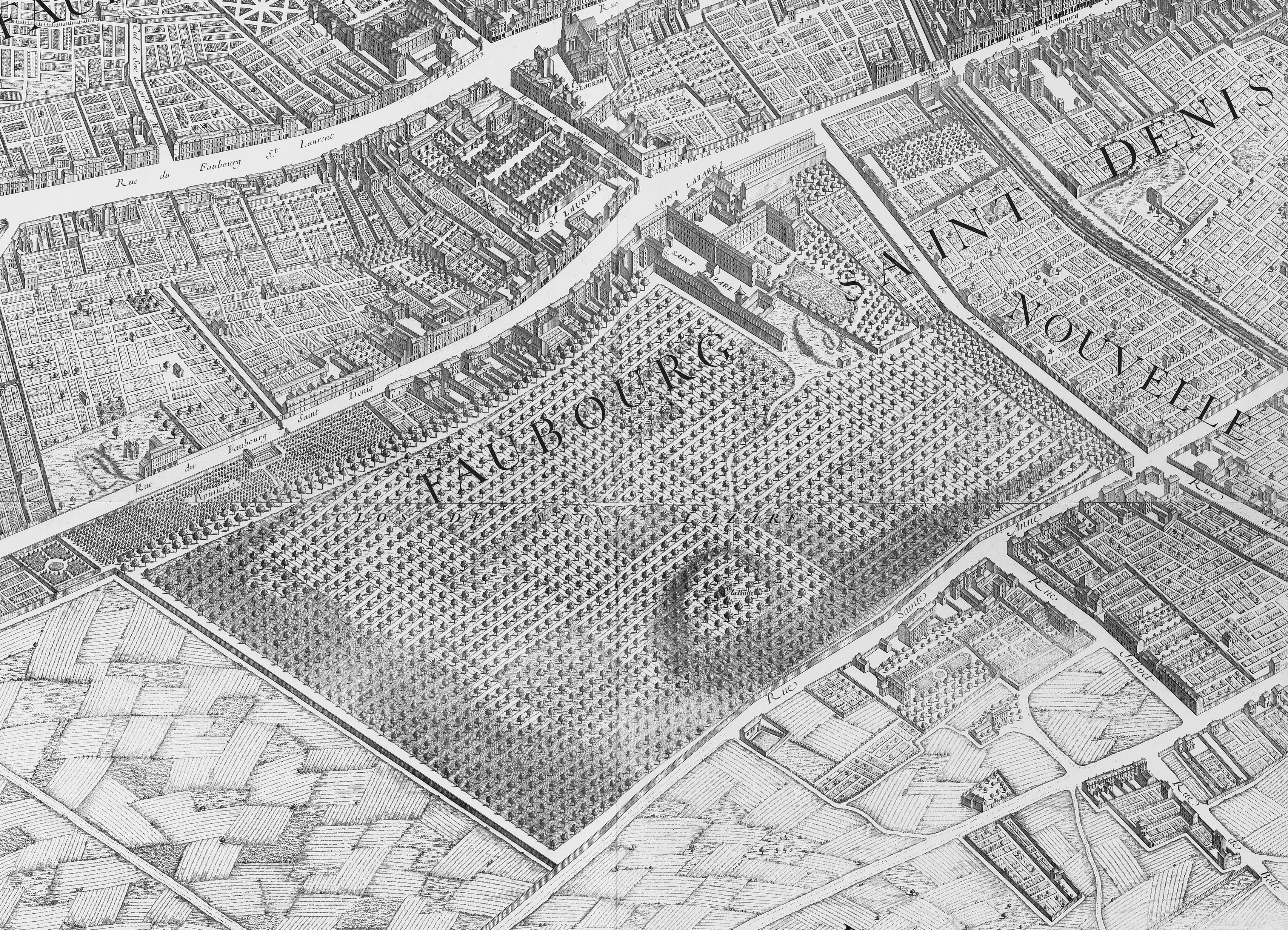 The Enclos Saint-Lazare (see Prison Saint-Lazare), north of Paris, as seen on the Plan de Turgot of 1739